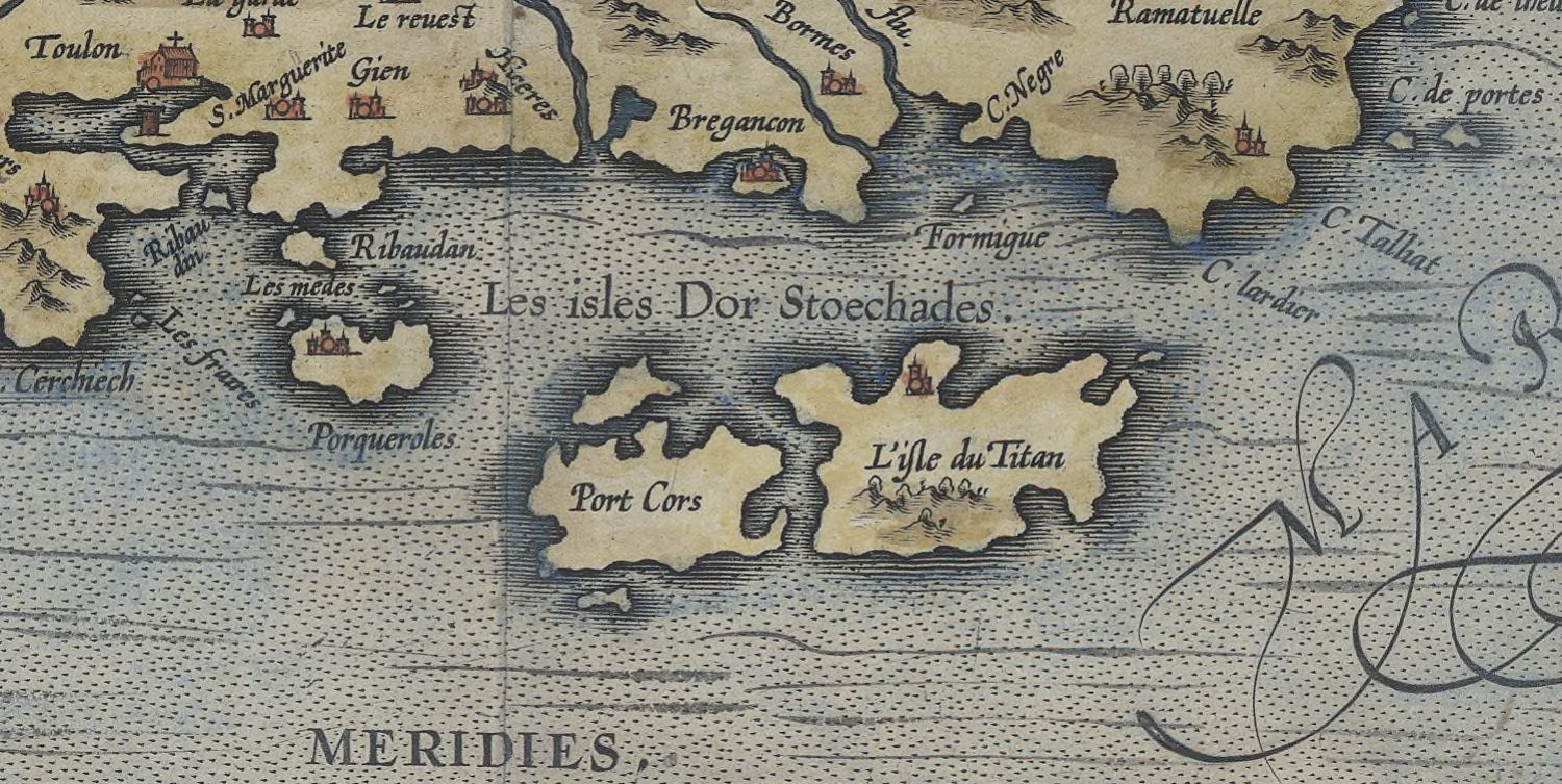 cropped from